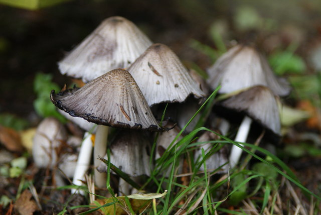 Fungi by the Gate Seen by the base of the gatepost, at the end of the footpath.